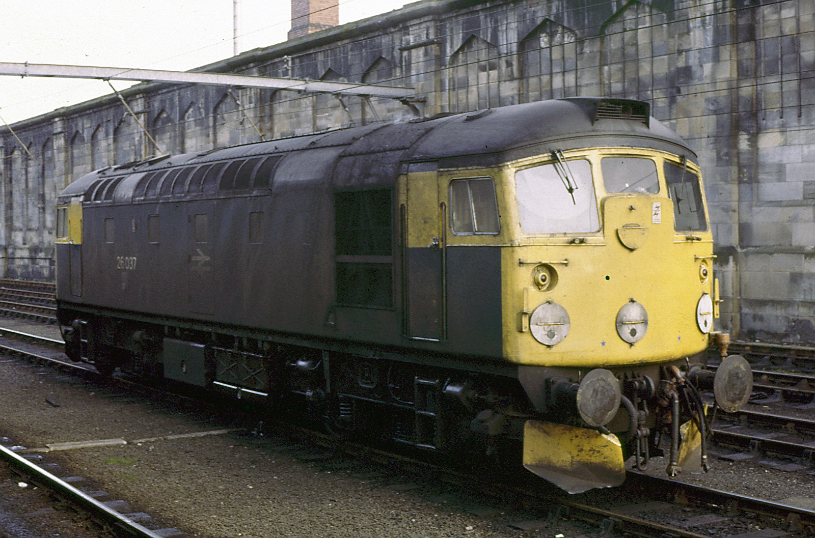 Carlisle Class26 26037